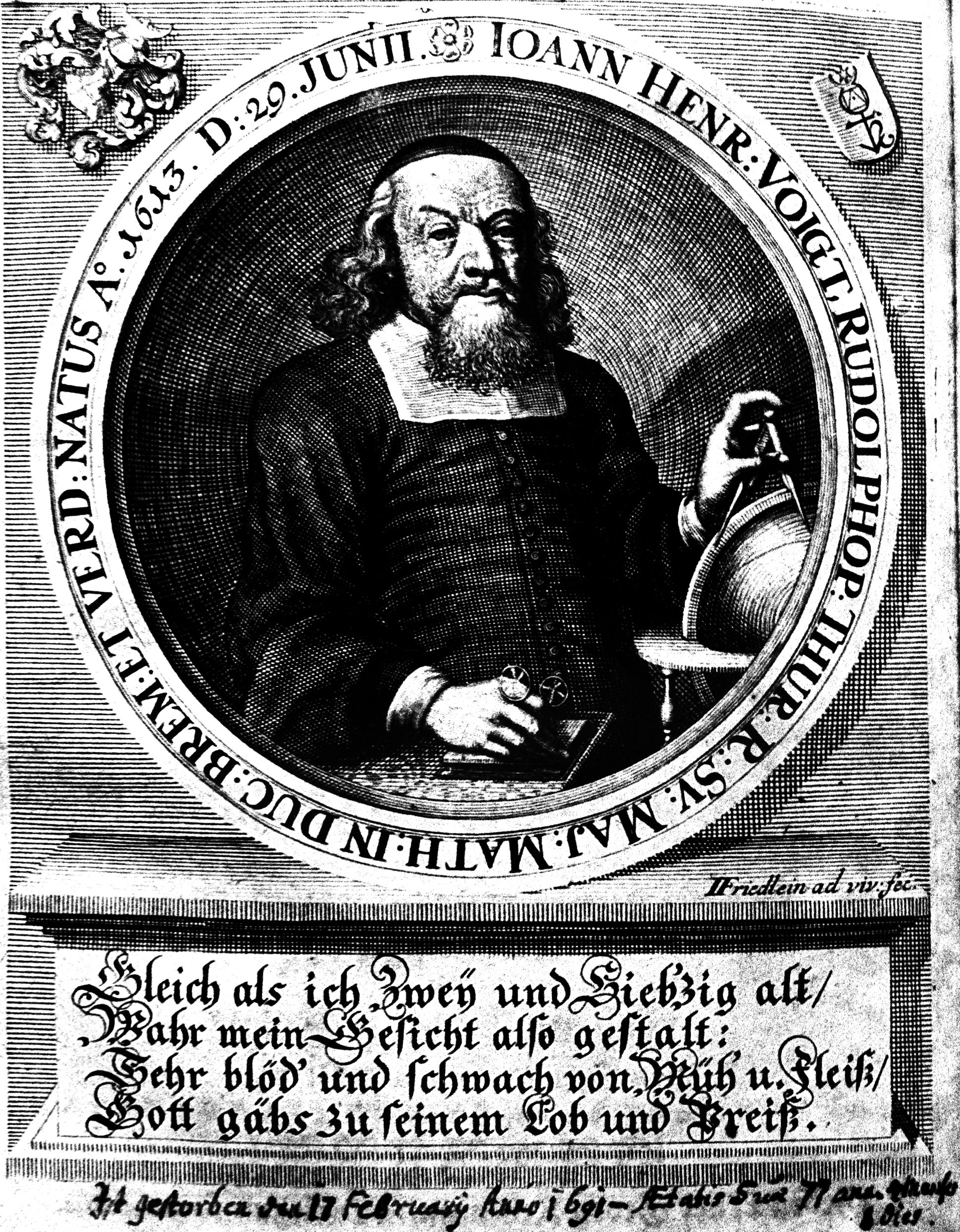 Image of Johann Henrich Voigt in Haupt-Calender on 1686